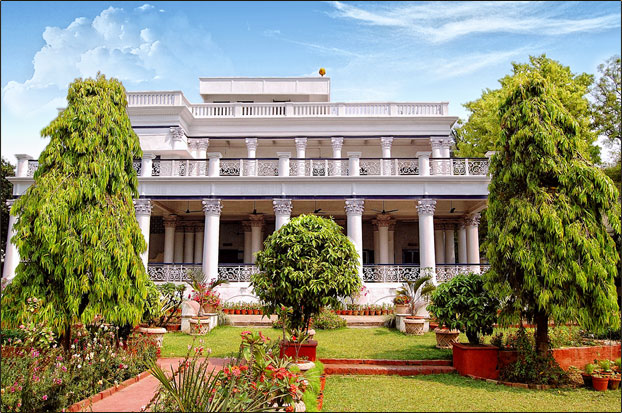 Yogoda Satsanga Society of India Headquarters, Dakshinewar, India - the main building